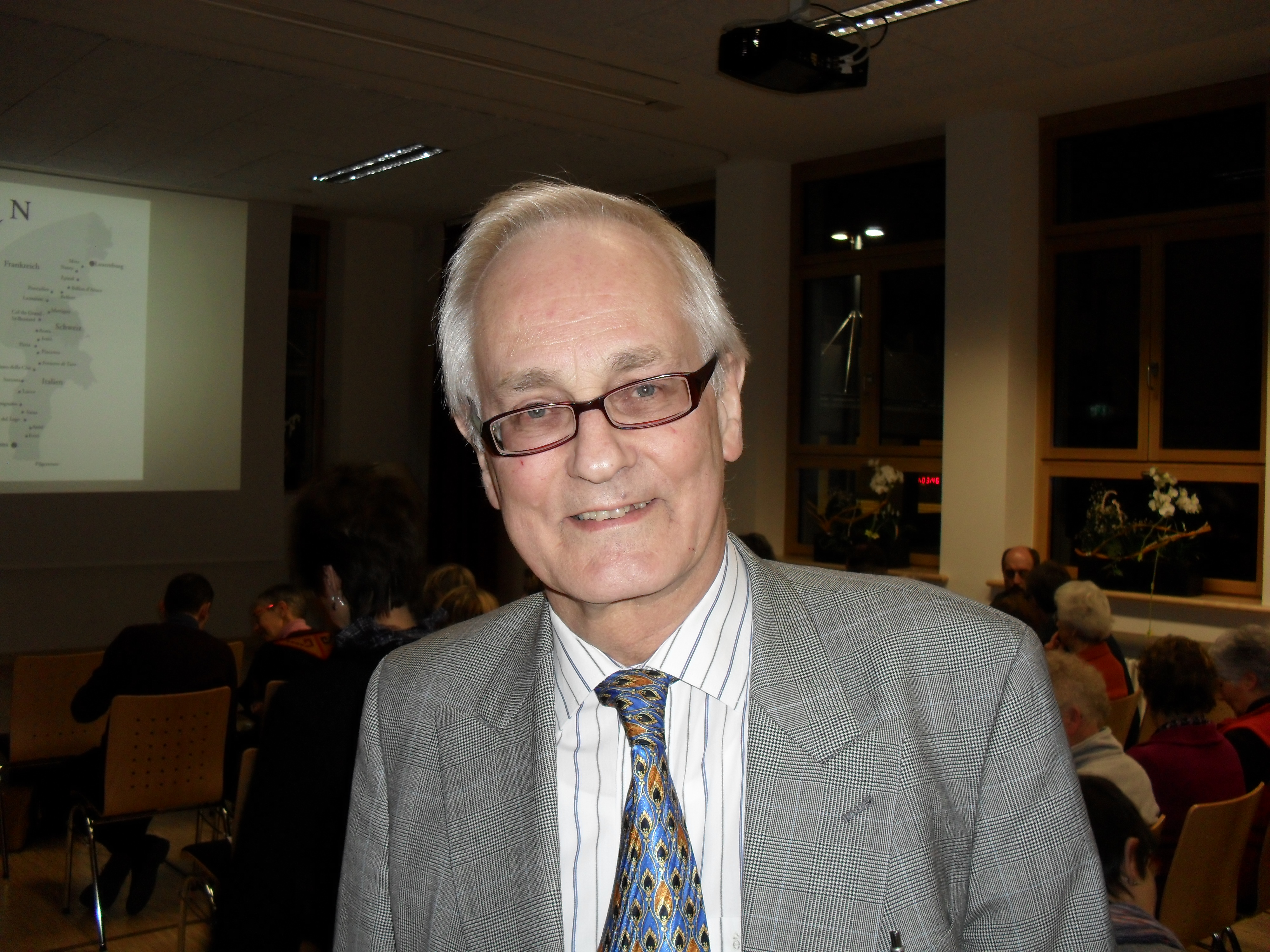 Michel Hubert, Luxembourgian author.